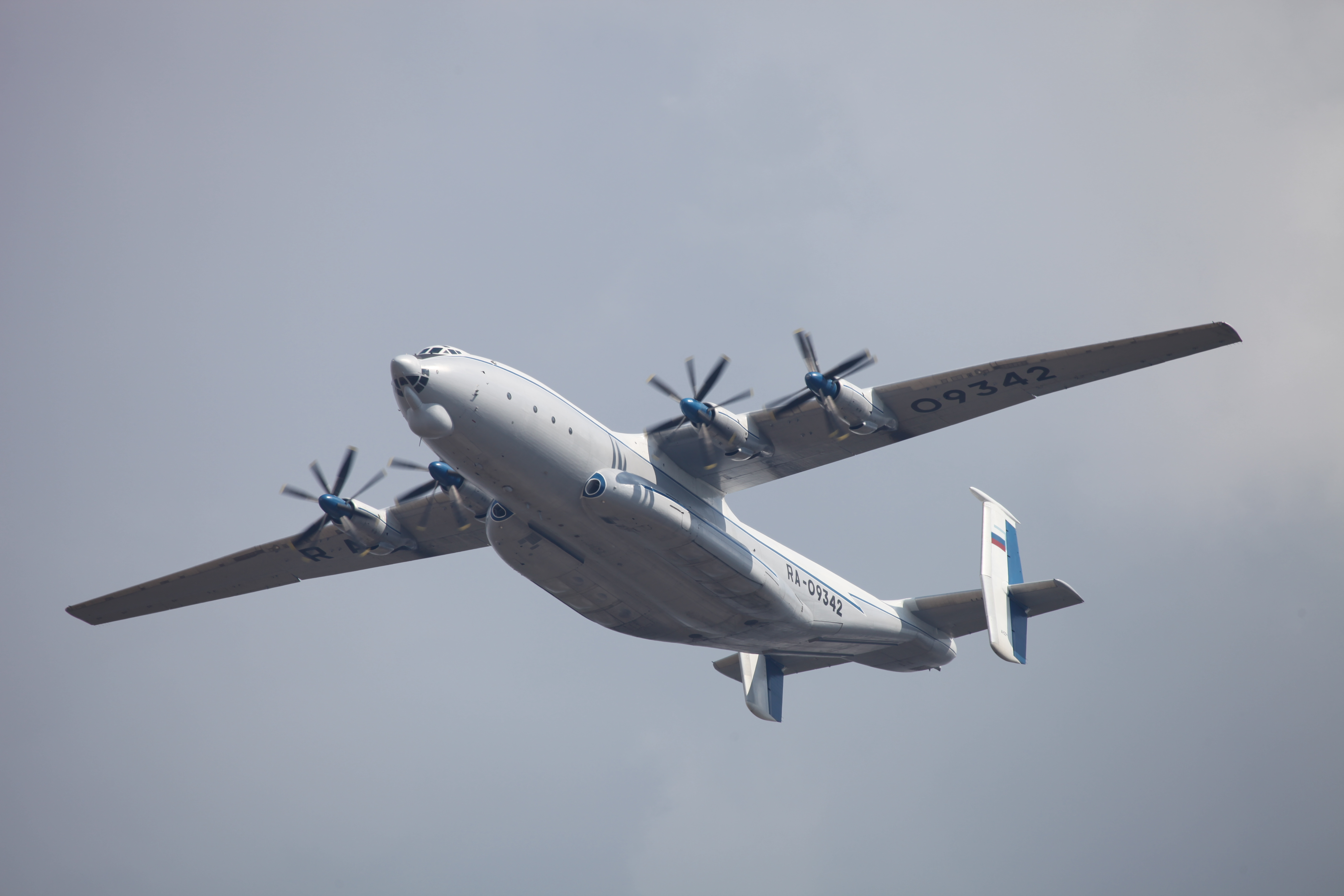 Aircraft at the Celebration of the 100th anniversary of Russian Air Force.